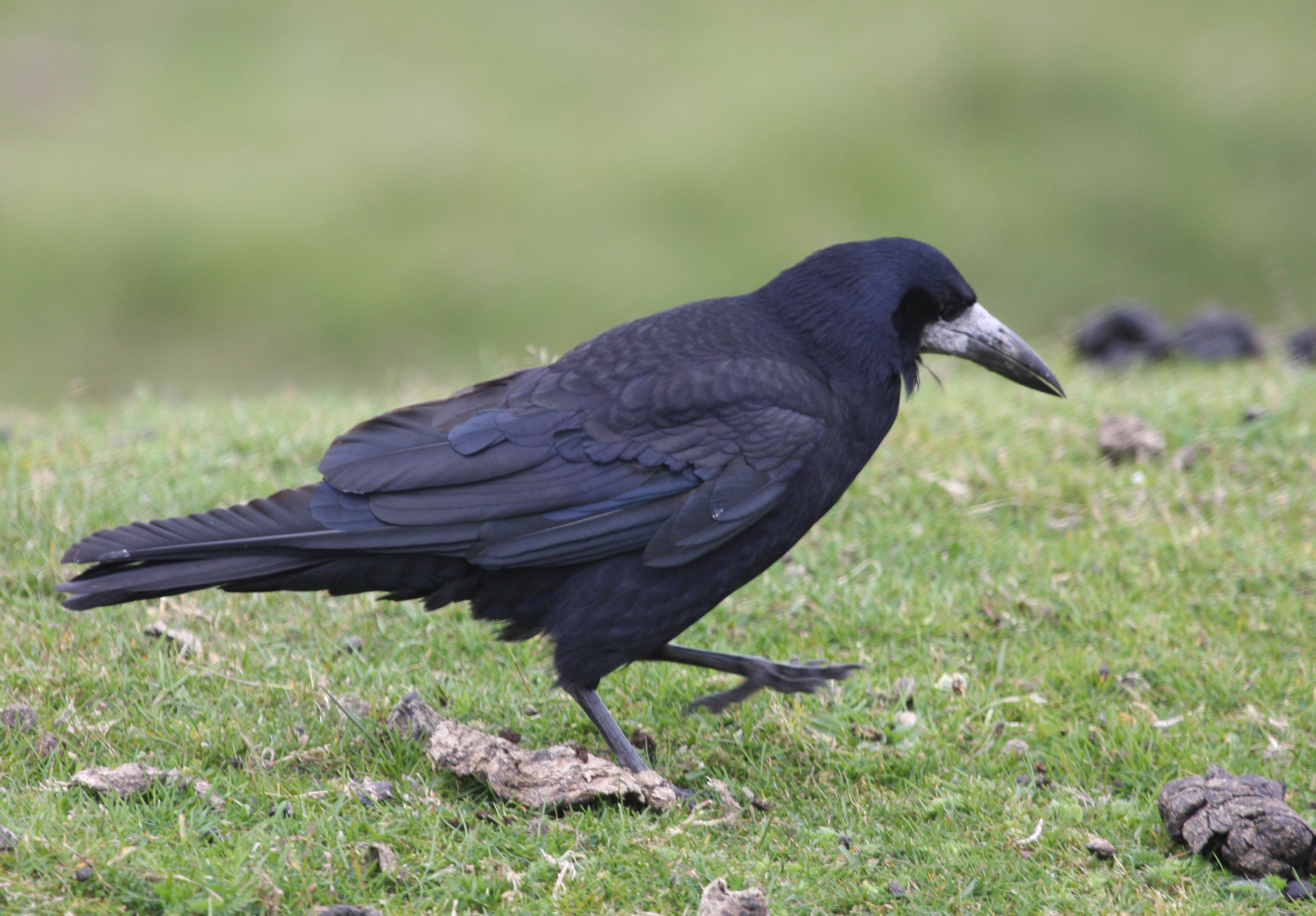 A Rook in Dartmoor, Devon, England. It is walking in a field where sheep are kept.